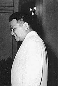 Cropped photo of President Magsaysay from this original upload.